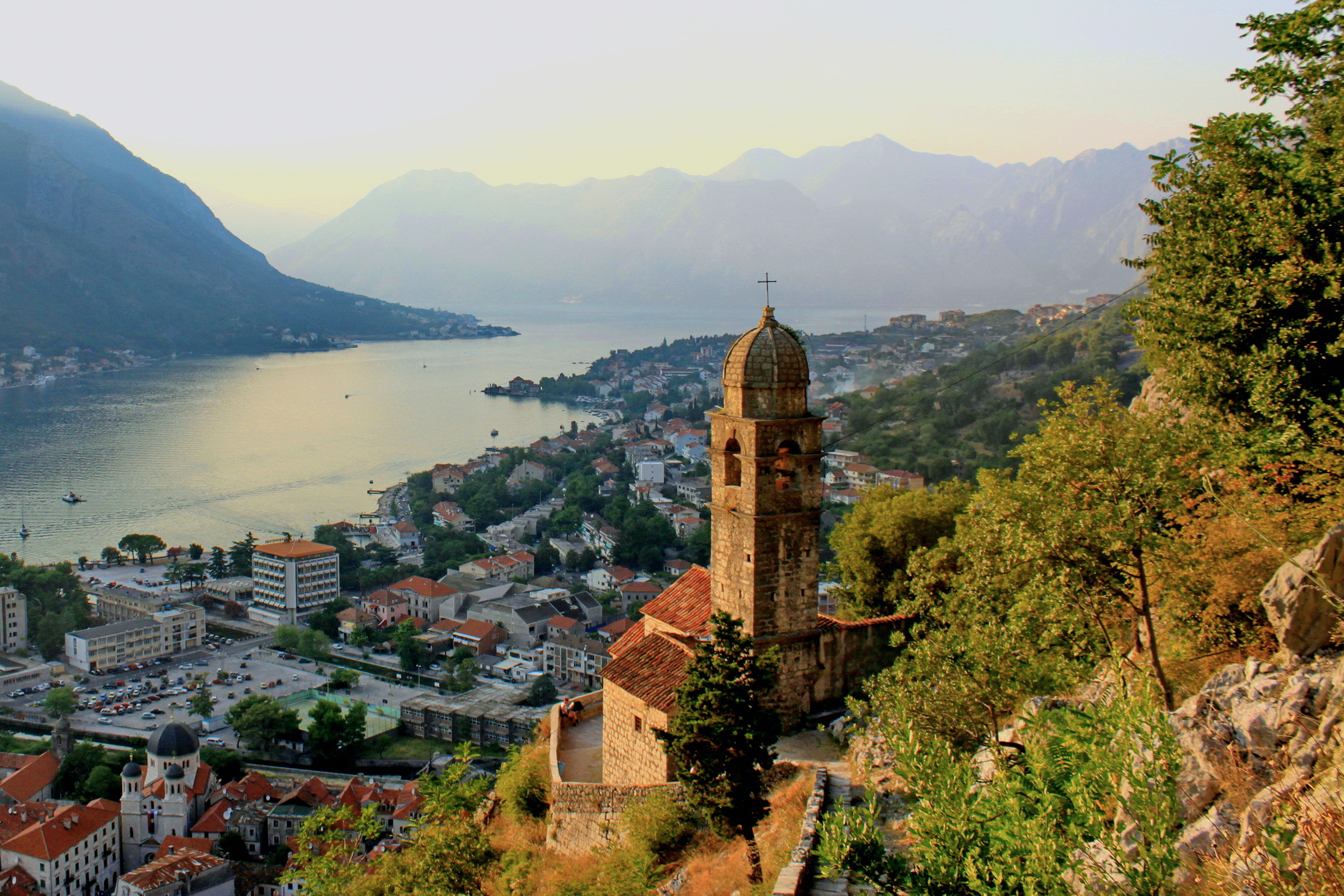 Church of Our Lady of Remedy. Kotor, Montenegro.